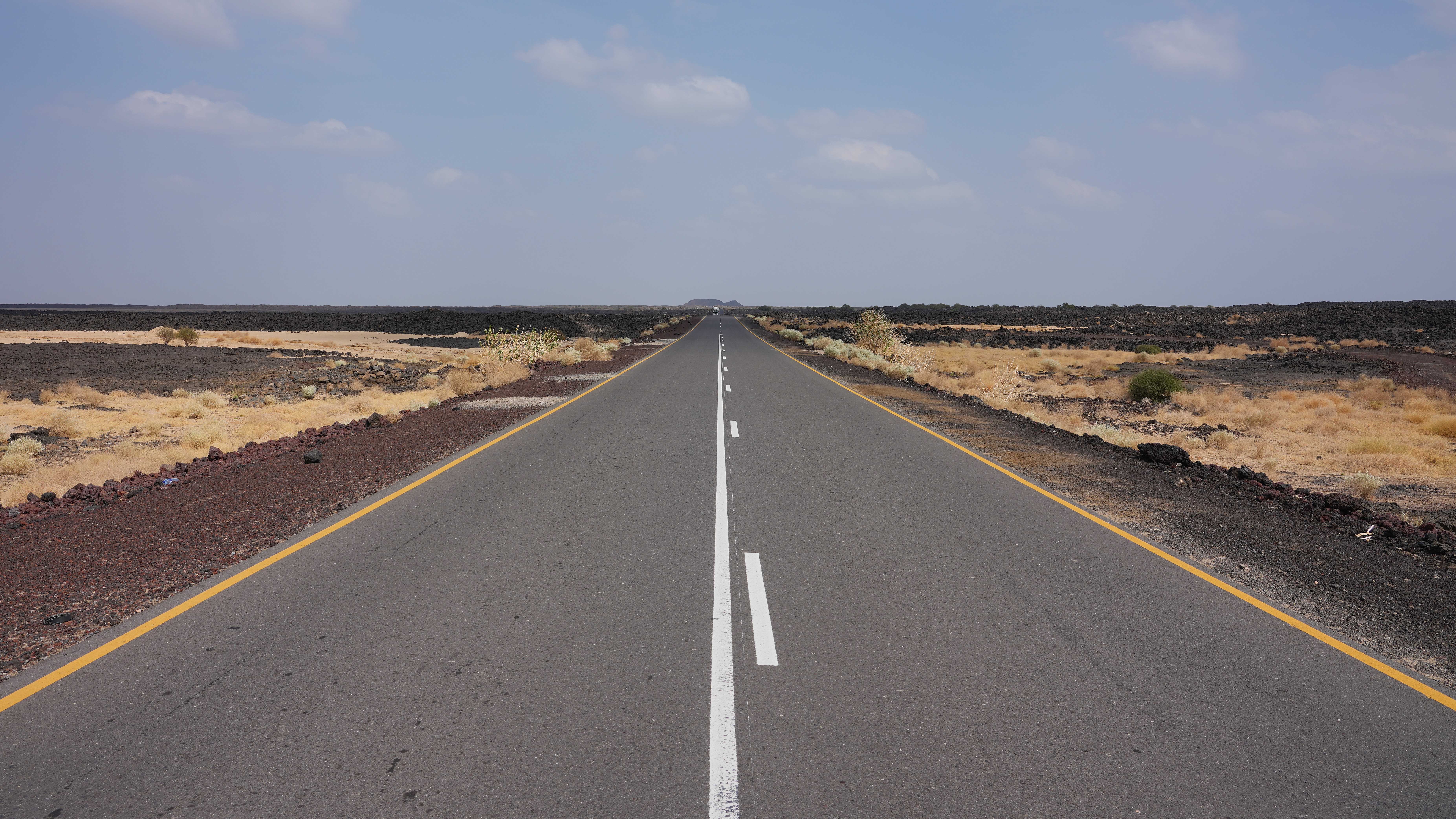 Road near Lake Afdera and Erta Ale volcano, Afar Region, Ethiopia